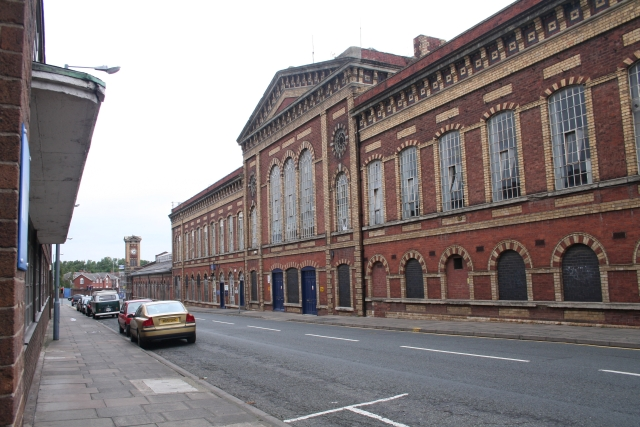 Heenan & Froude Engineering Works Beautiful brickwork. In Midland Road, near Shrub Hill Station. Heenan & Froude was famous for building the 518ft high Blackpool Tower